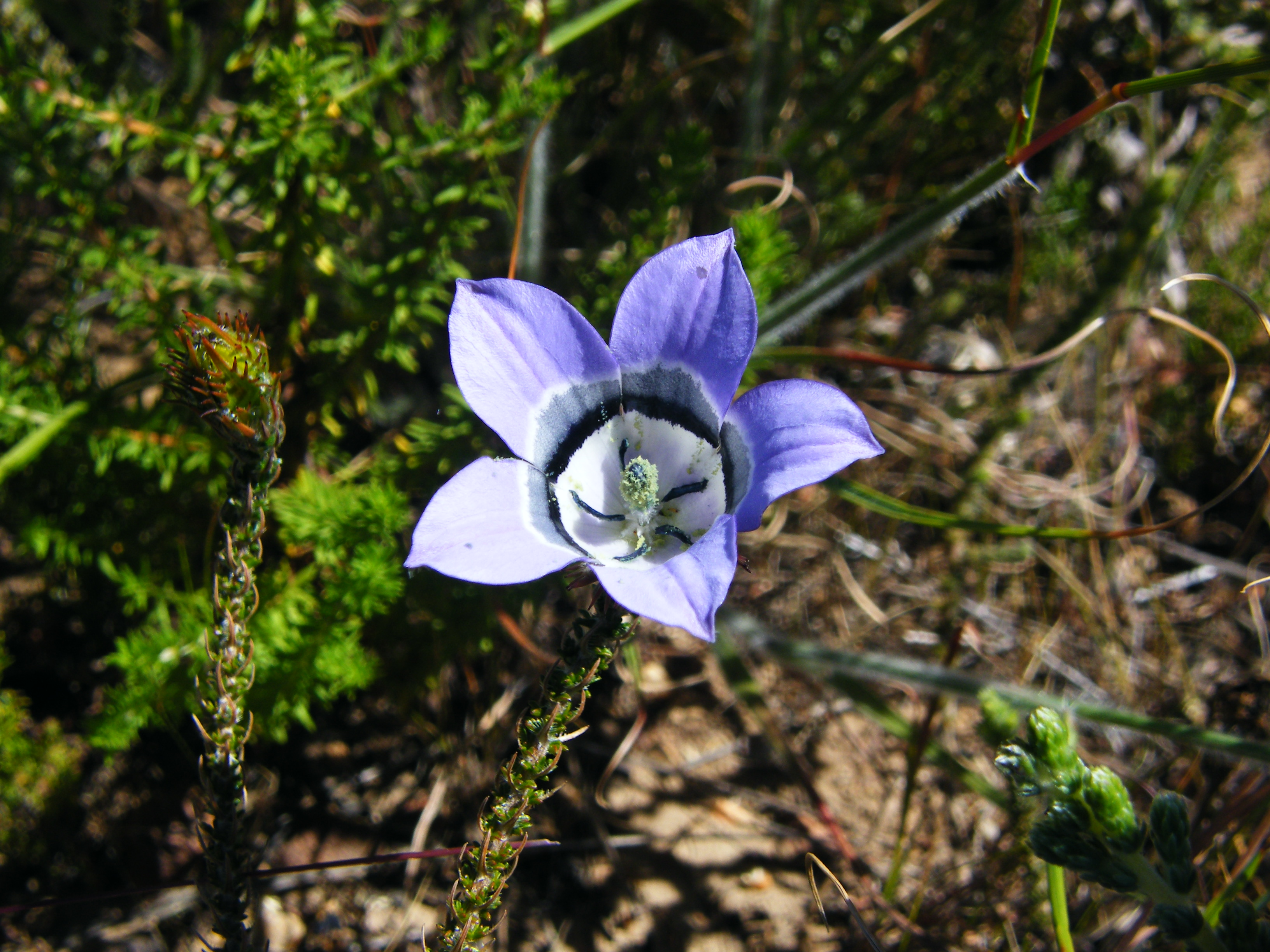 White eyed Roella